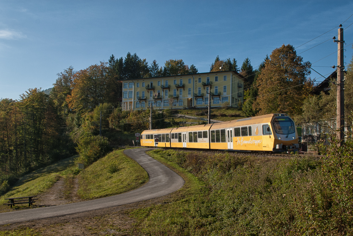 NÖVOG Narrow gauge EMU Class ET approaching Winterbach Station on the Mariazellerbahn